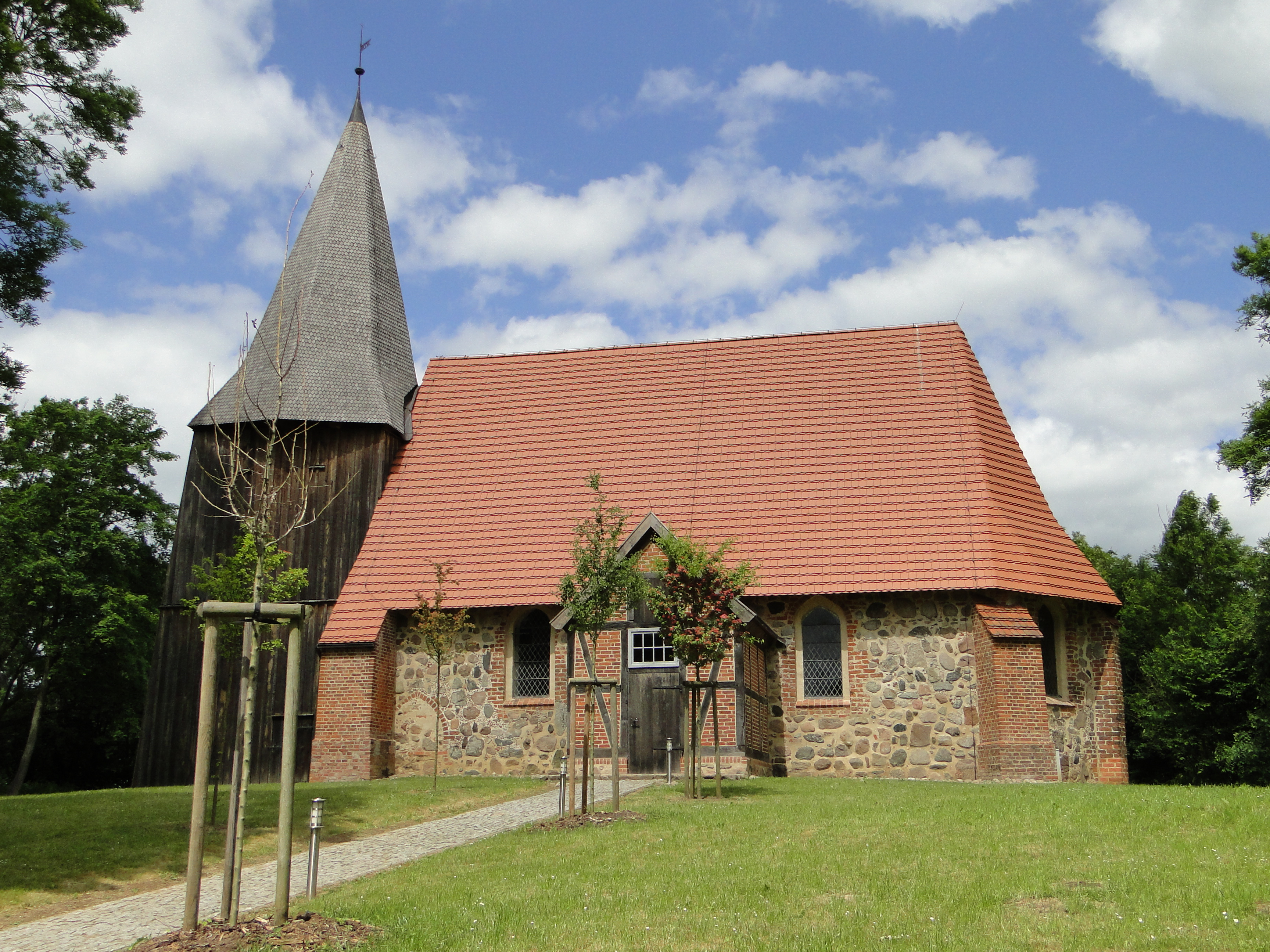 Church in Techentin, district Ludwigslust-Parchim, Mecklenburg-Vorpommern, Germany